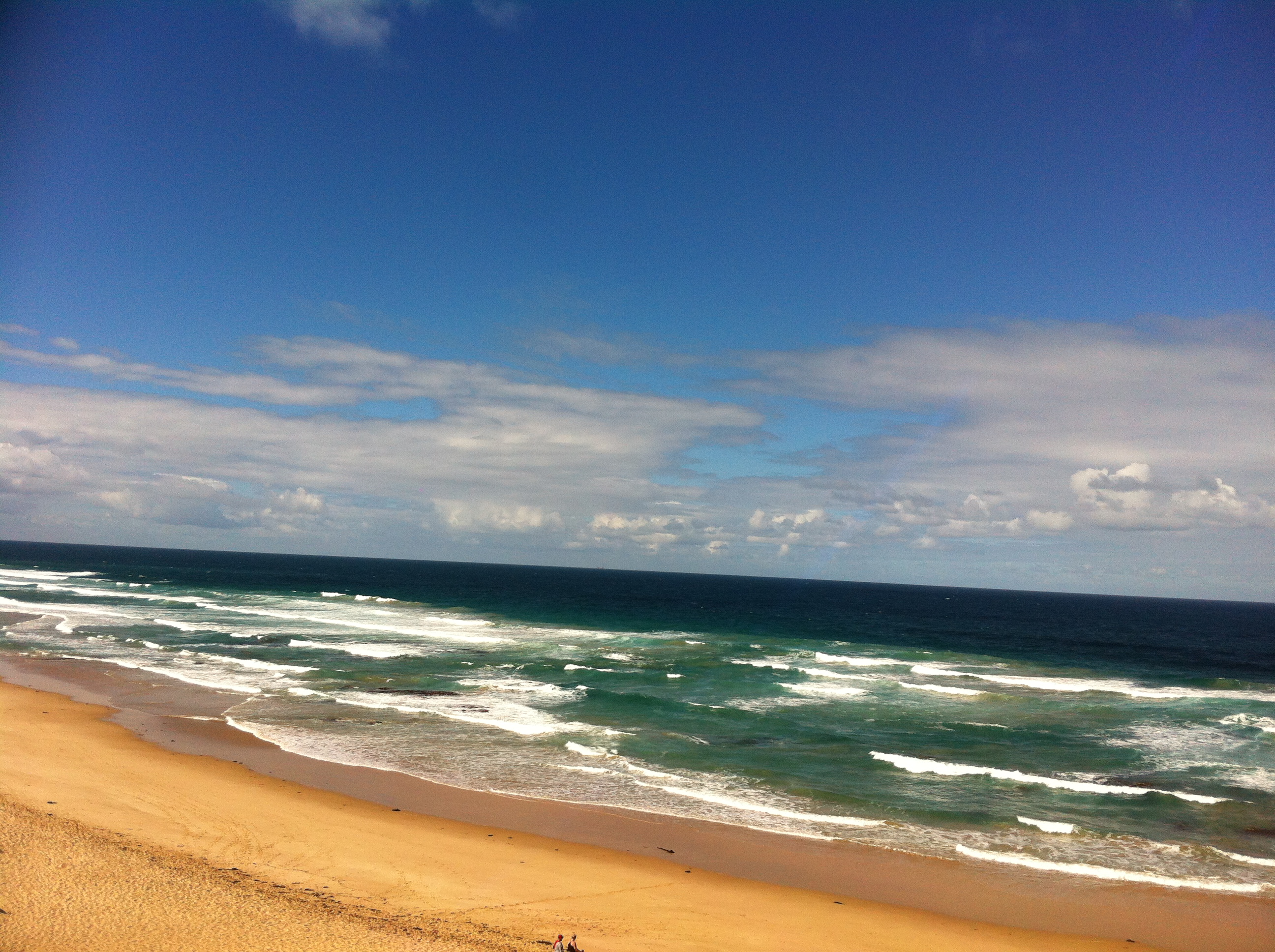 Portsea Backbeach; Mornington Peninsula National Park